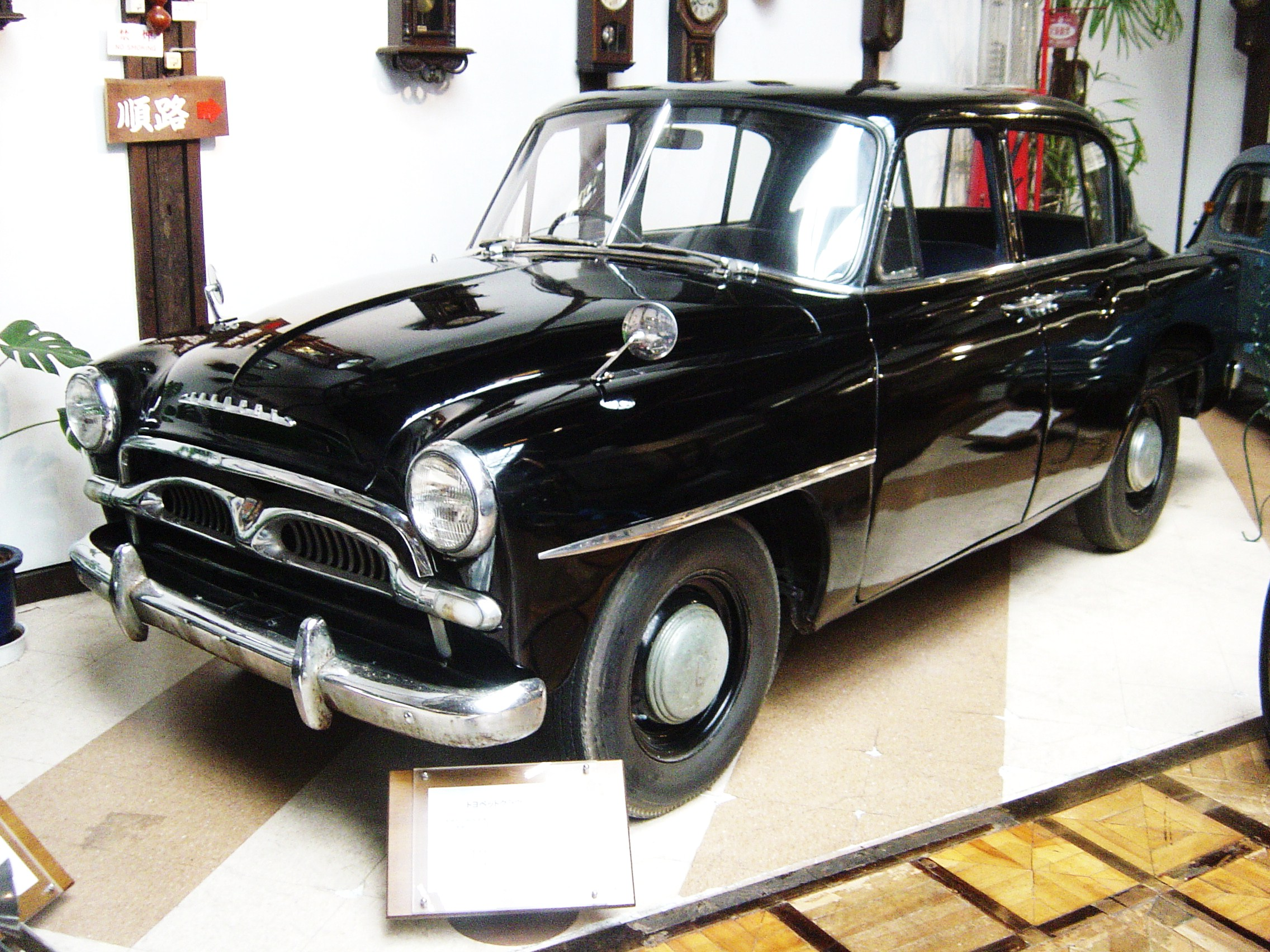 Toyota Crown First Model